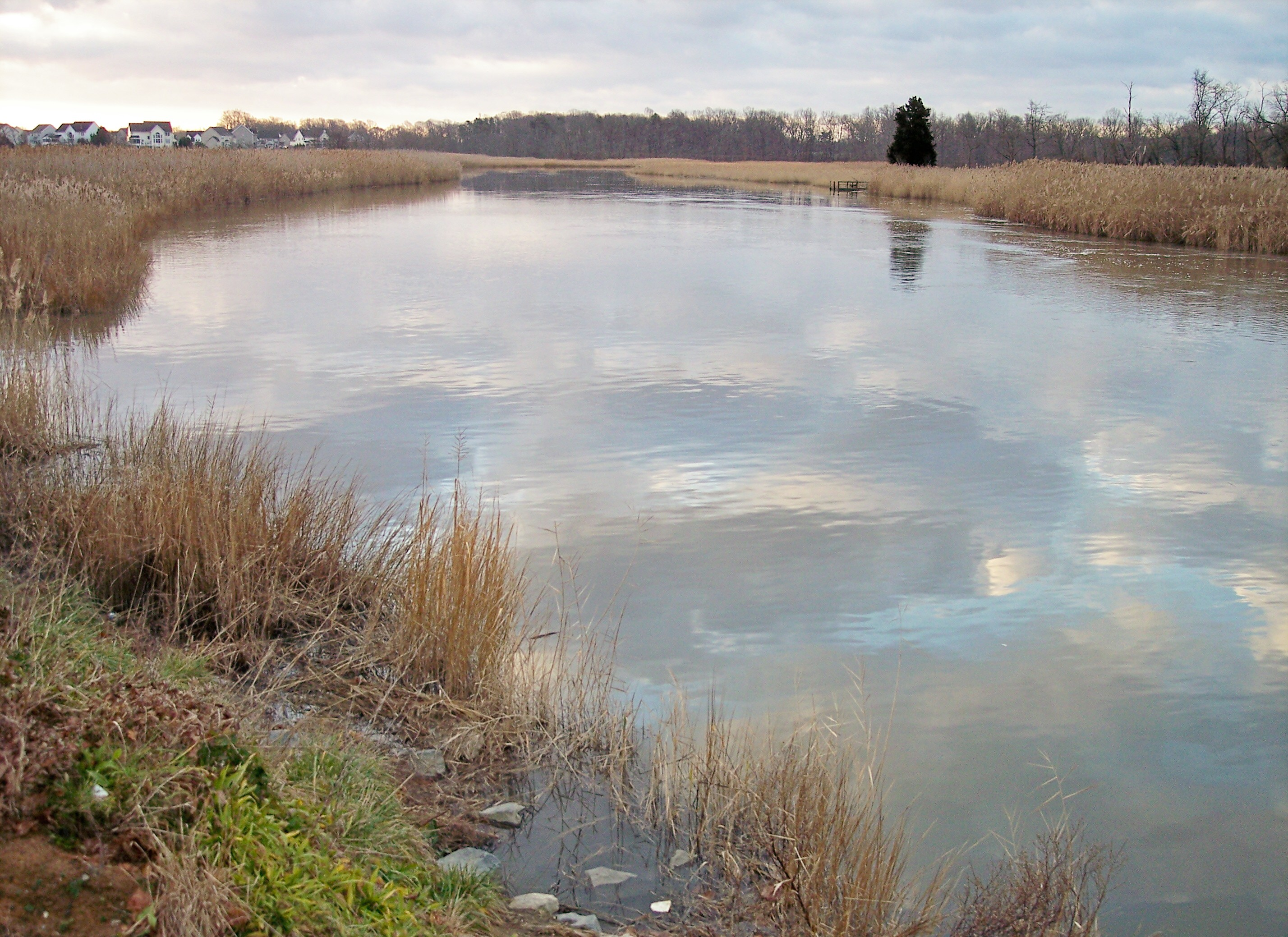 The Appoquinimink River in Odessa, Delaware, as viewed upstream from Delaware State Route 299